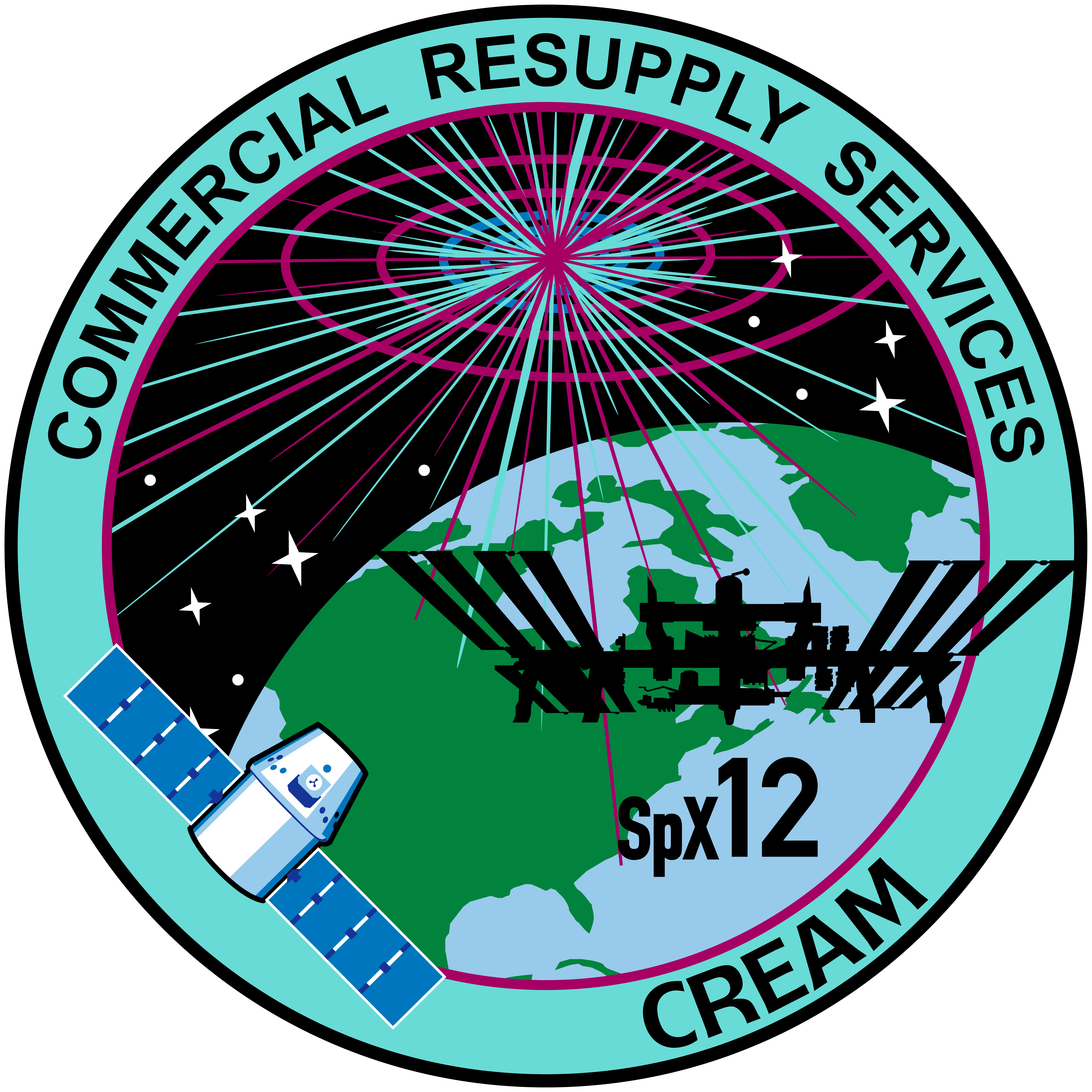 NASA's insignia for SpaceX's twelfth Commercial Resupply Services flight to the International Space Station. Also includes CREAM experiment.